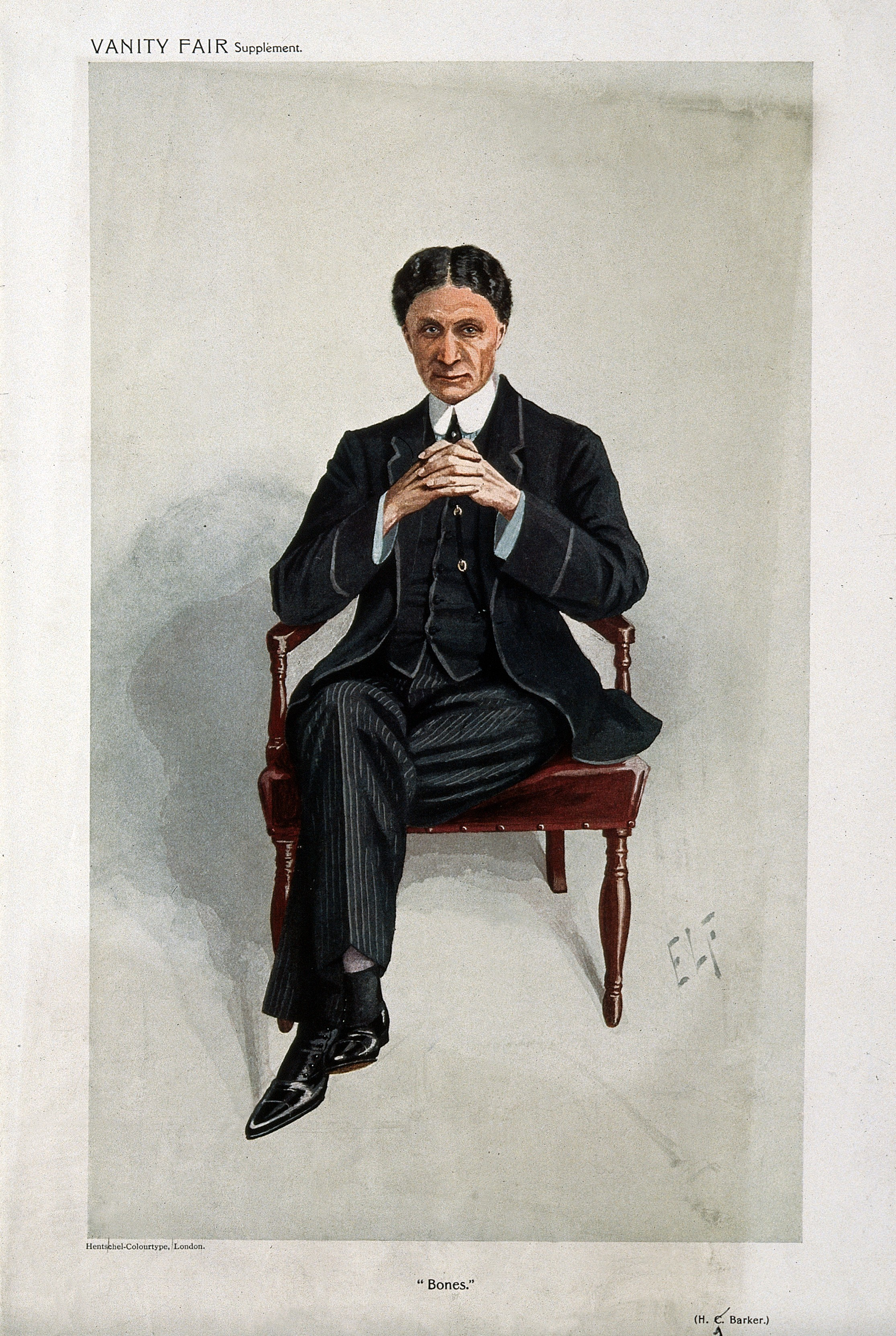 Sir Herbert Atkinson Barker. Coloured lithograph after [Elf]. Iconographic Collections Keywords: portrait prints; Herbert Atkinson Barker; barker, herbert atkinson, sir